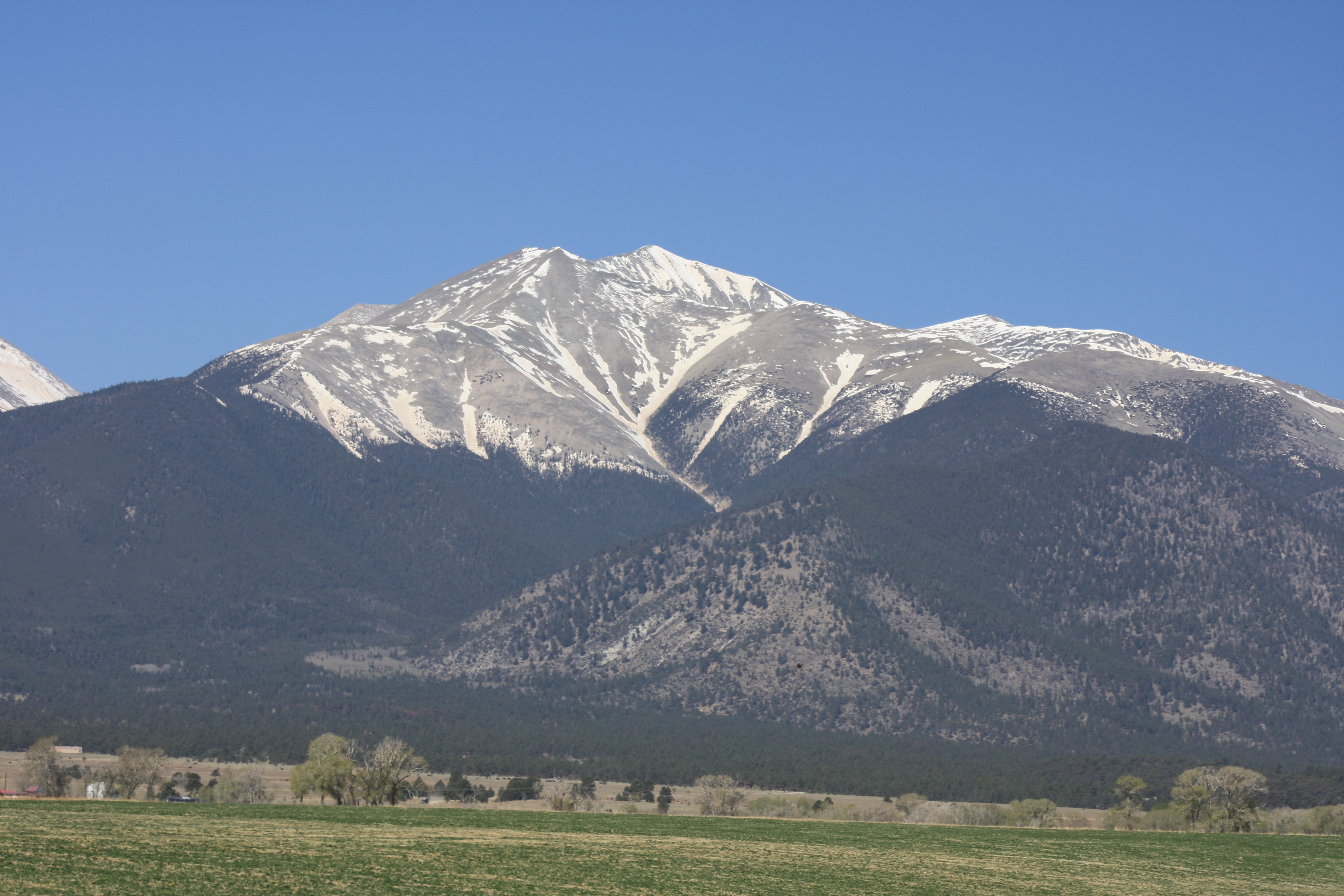 A closer view of Mount Antero, taken from along U.S. 285, near the town of Nathrop. IMG_2209